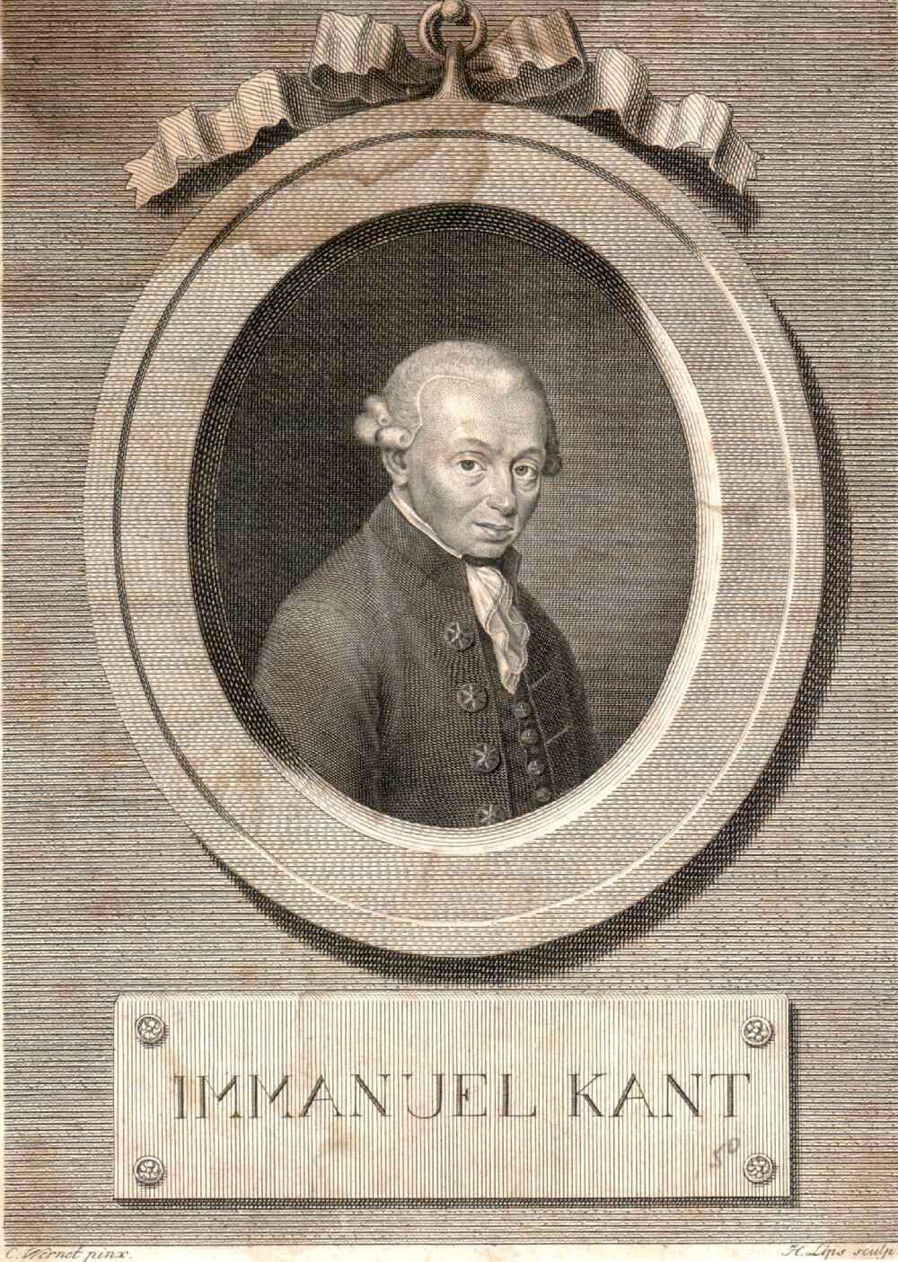 Immanuel Kant